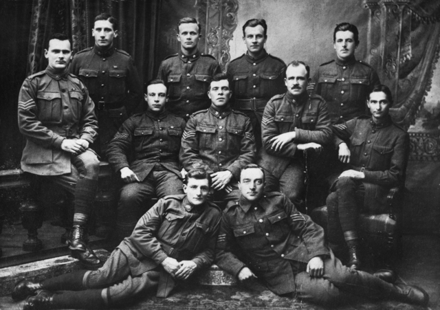 AWM Caption: North Russia. Some of the non-commissioned officers who joined the force, the secret name for which was 'Elope', for service in the vicinity of Archangel. A number of Australians joined this force and four are included in the photograph. They are Bert Perry (standing back left), Sergeant Arthur Van Duve, MM (seated on left), John Kelly (seated far right) and Charles Hickey (lying, left). Also in the picture is Robert McCready, a New Zealander (next to Perry) and Bill Winning, a Scot (lying right). The remainder of the group are unidentified.